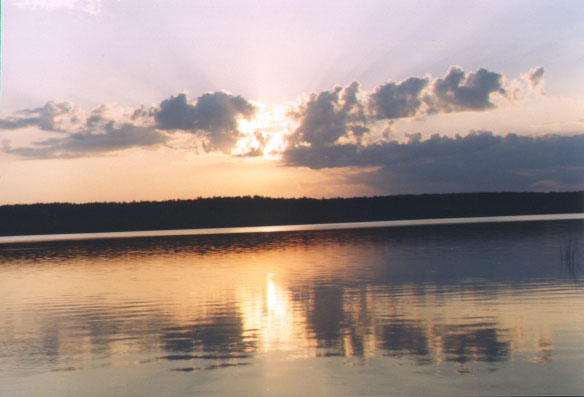 Jezioro Mokre lake on Masuria, Poland - sunset